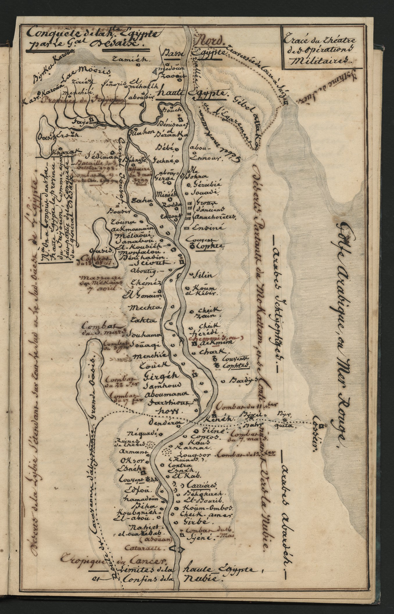 This map is from Hauet's manuscripts which describe the French invasion of France. It shows the theater of operations in Upper Egypt.